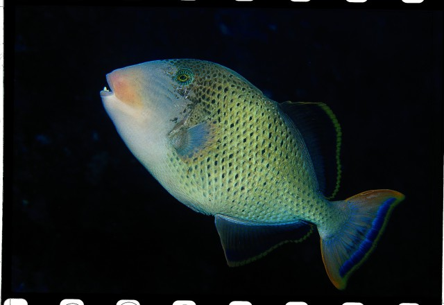 Pseudobalistes flavimarginatus